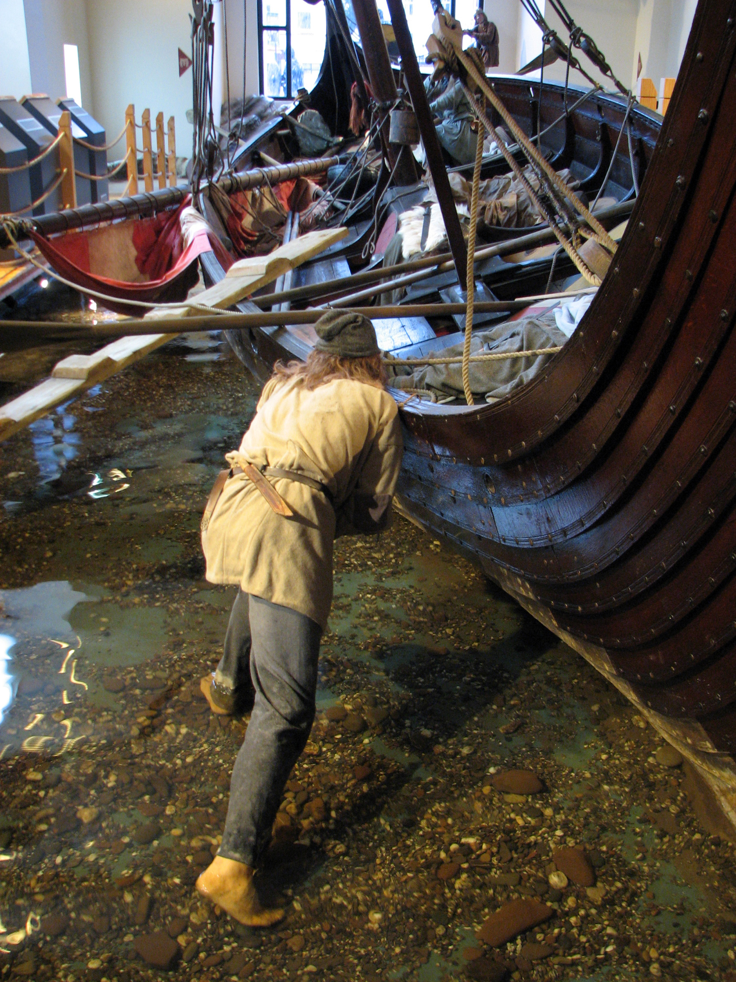 Display at the House of Manannan of vikings putting a longship ashore, Peel, Isle of Man